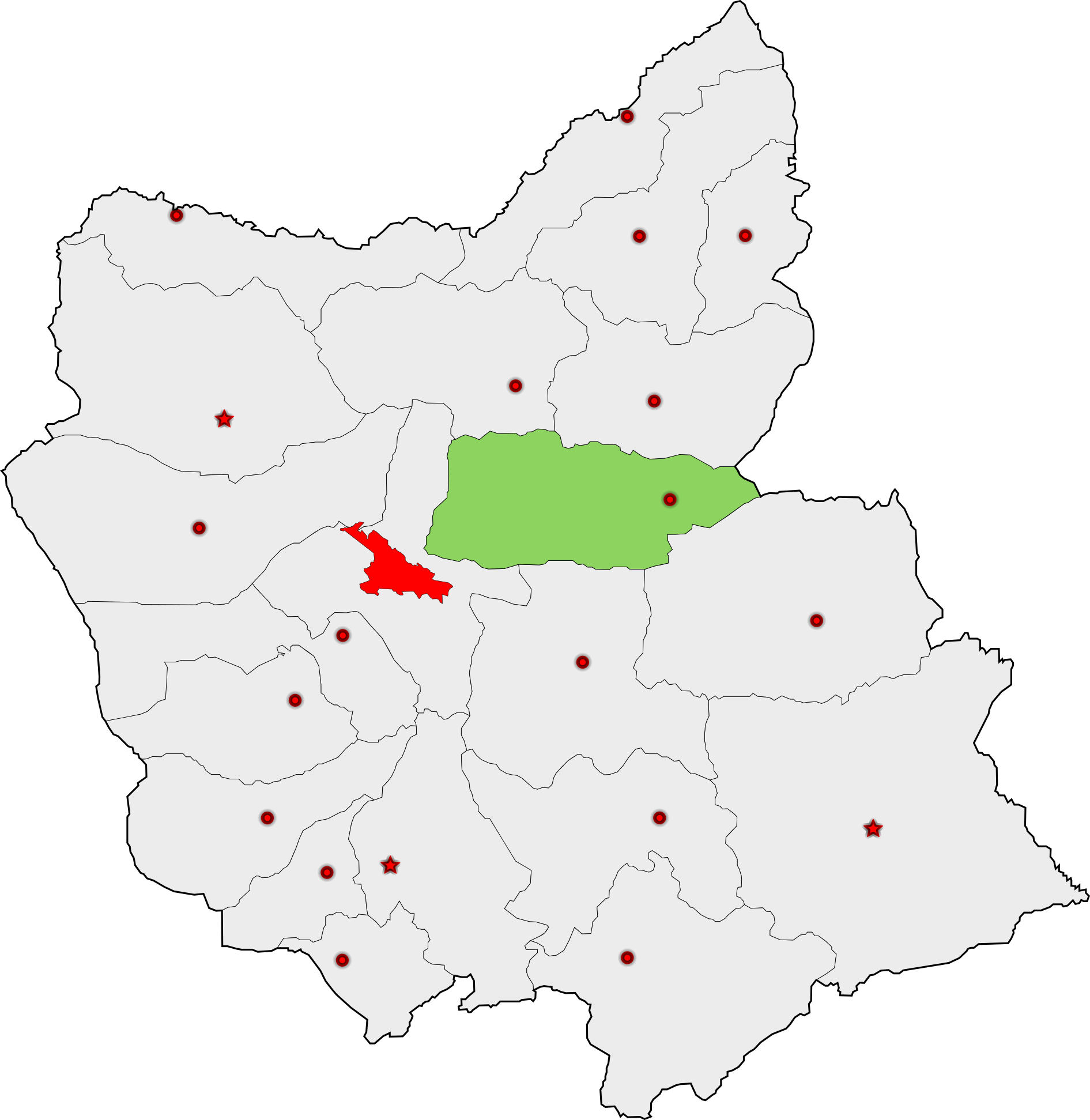 East Azarbaijan counties (shahrestan), divisions